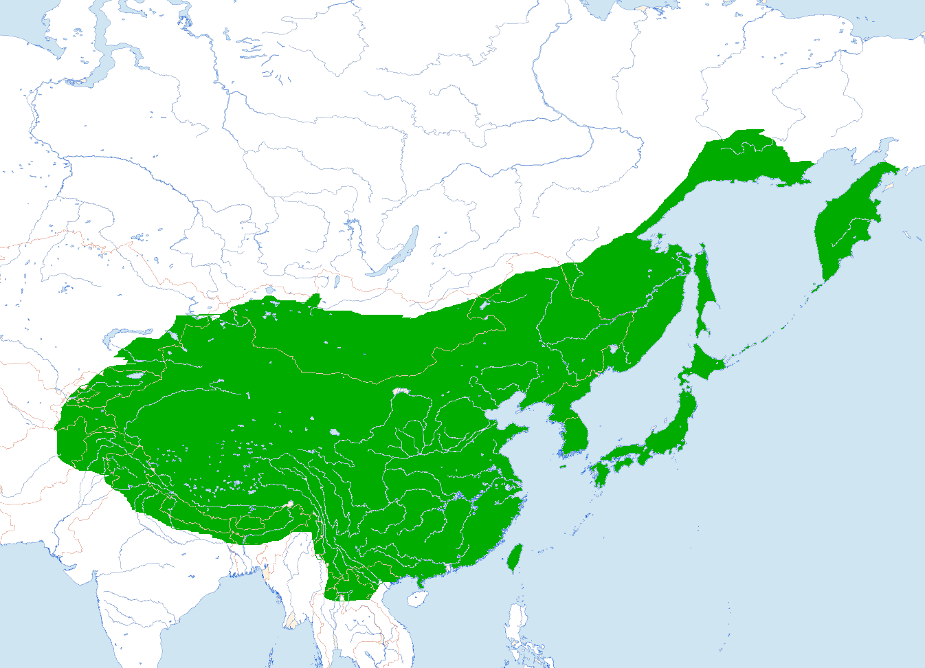 Cinclus pallasii - Range Map